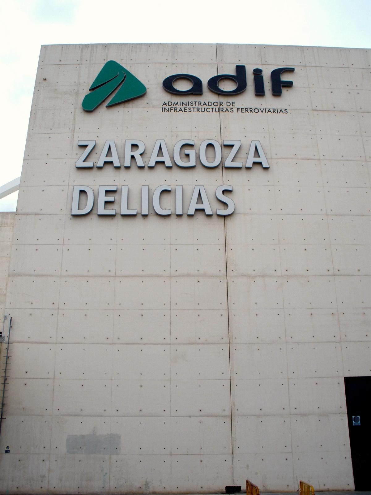 Zaragoza-Delicias railway station (Zaragoza, Spain).